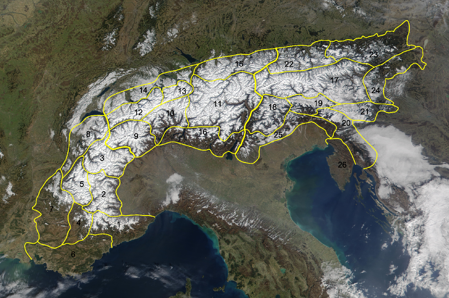 Italian/French division of the alps (System of IX Congresso Geografico Italiano 1924). Thick lines: limits of western, central and eastern alps